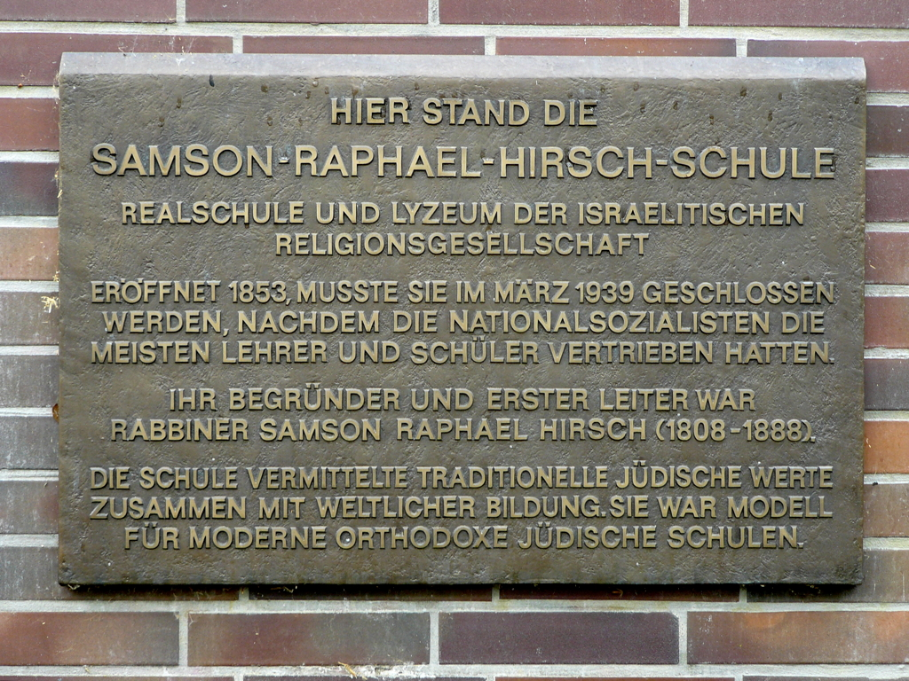 Commemorative plaque of bronze (inaugurated in 2001) for the former Samson-Raphael-Hirsch-Schule which is placed at the front of the new building of Heinrich-von-Gagern-Gymnasium in the borough Ostend of Frankfurt am Main, Hesse, Germany